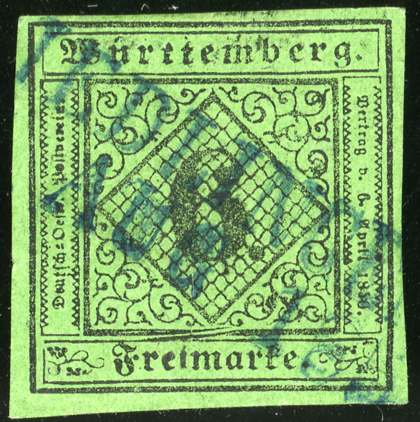 Kingdom of Wurtemberg, 6 kreuzer first issue 1851 stamp, blue linear cancelled at RIEDLINGEN.